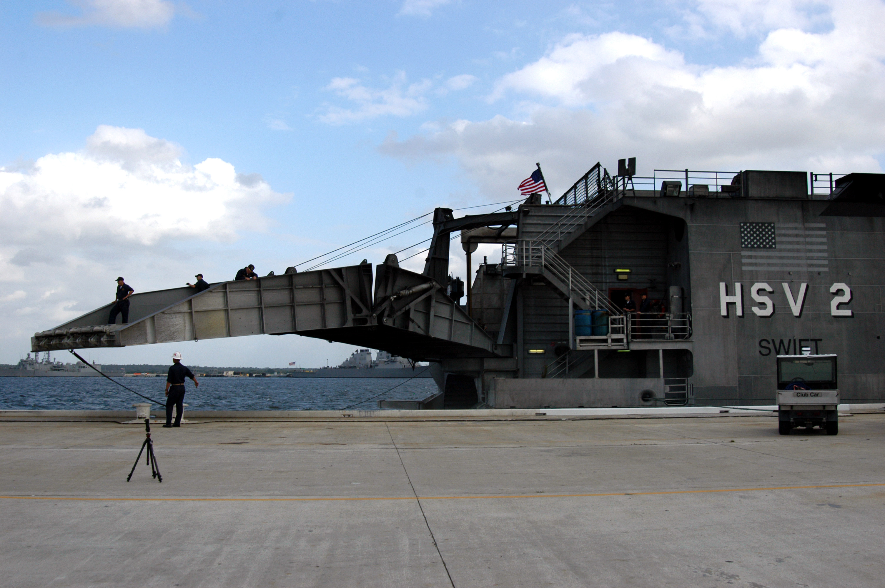 MAYPORT, Fla. (Sept. 30, 2007) - High Speed Vessel (HSV) 2 Swift arrives at Naval Station Mayport marking the end of its deployment, where she serves as the platform for Global Fleet Station (GFS) pilot. Since departing Mayport on April 25, GFS hosted over 1,000 host nation military and civilian personnel during 12 visits to seven countries, including Belize, Dominican Republic, Guatemala, Honduras, Jamaica, Nicaragua and Panama. The pilot deployment was under the operational control of U.S. Naval Forces Southern Command. U.S. Navy photo by Mass Communication Specialist 2nd Class Holly Boynton (RELEASED)